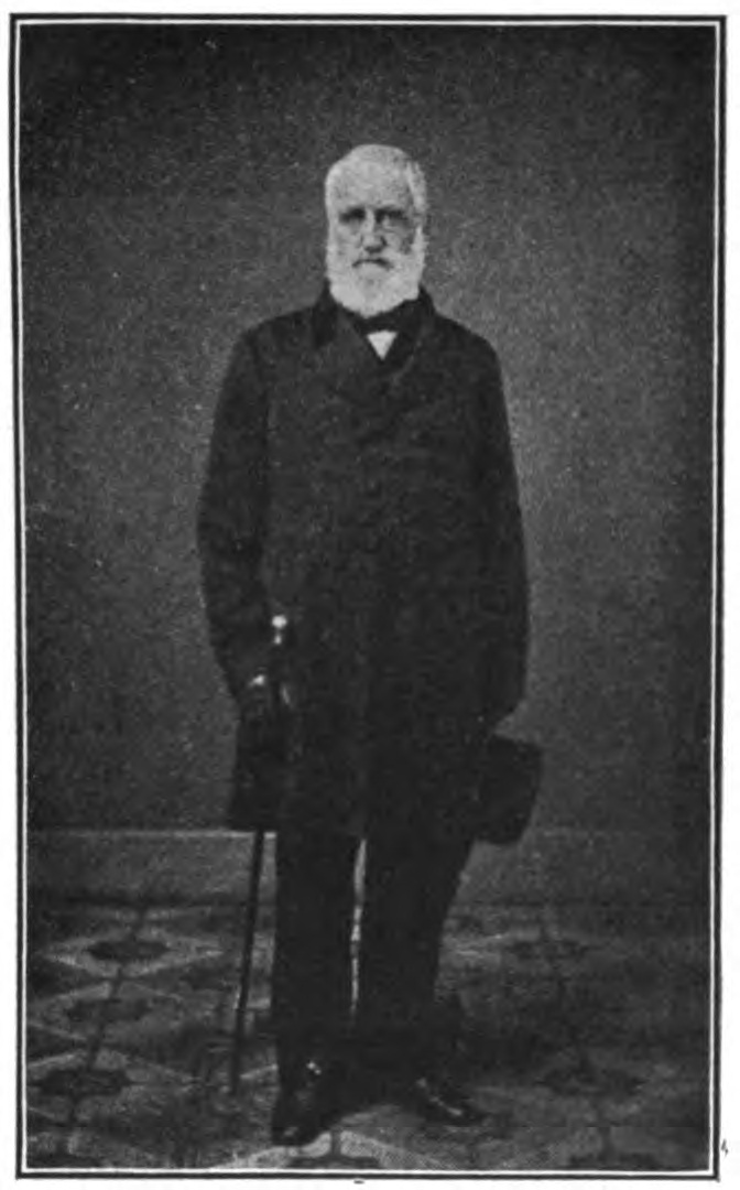 Samson Mason, member of the United States House of Representatives from Springfield, Ohio.